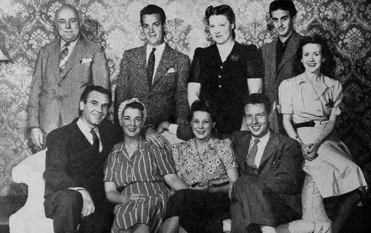 Cast of the radio program Kitty Keane in September 1940, when the program aired on NBC-Red Network. Front row from left:Carlton KaDell (Charles Williams), Gail Henshaw (Kitty Keane), Patricia Dunlap (Jill Jones), Bob Bailey (Bob Jones), Loretta Poynton (Pearl Davis). Back row from left: Phil Lord (Jefferson Fowler), Director Frank Dane, Peggy Hillias (Clara Lund), Stanley Harris (Neil Perry). A search for renewal was done in publications for the years 1967 and 1968. There were no listings for the title Radio Varieties. There's no evidence of renewal for the magazine.